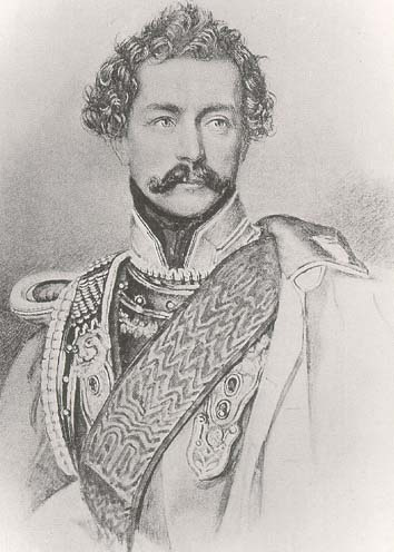 Karl Theodor Maximilian August Prince of Bavaria (1795-1875), Son of Maximilian I (Joseph), King of Bavaria.